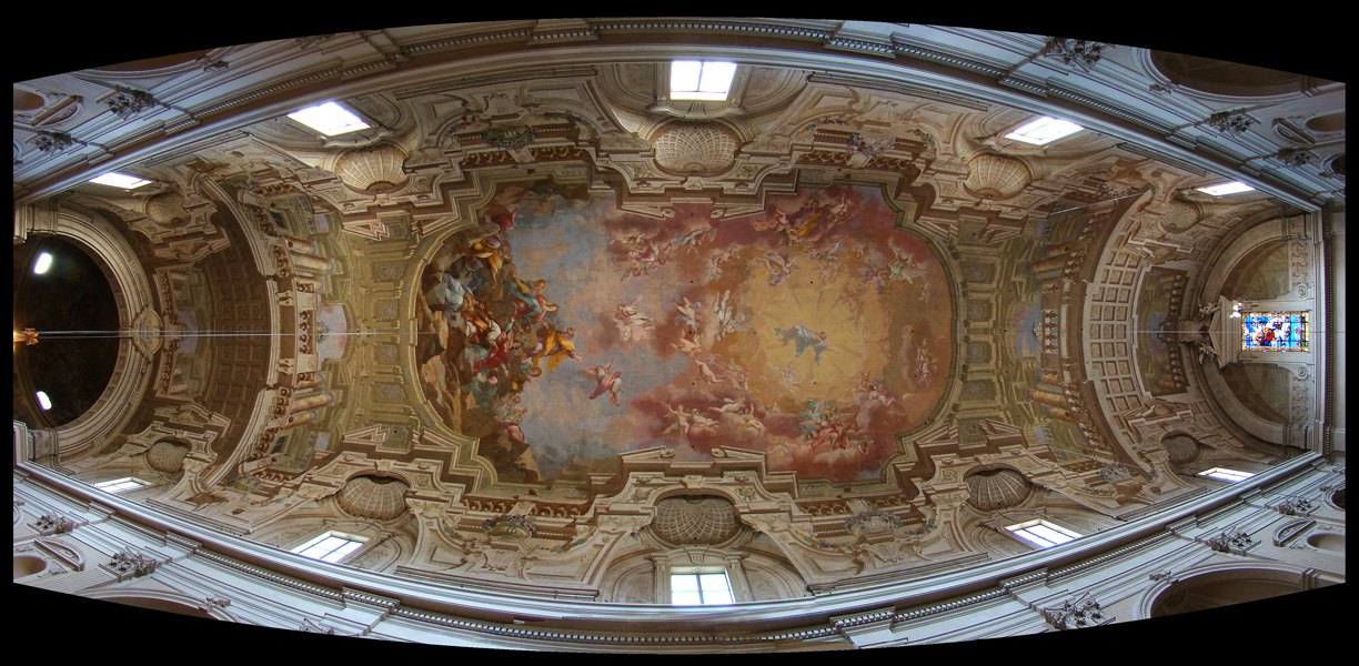 Church of Santa Maria del Carmine, Florence, Tuscany, Italy. The vault over the entire nave, with the apse on the left and the main entrance on the right.